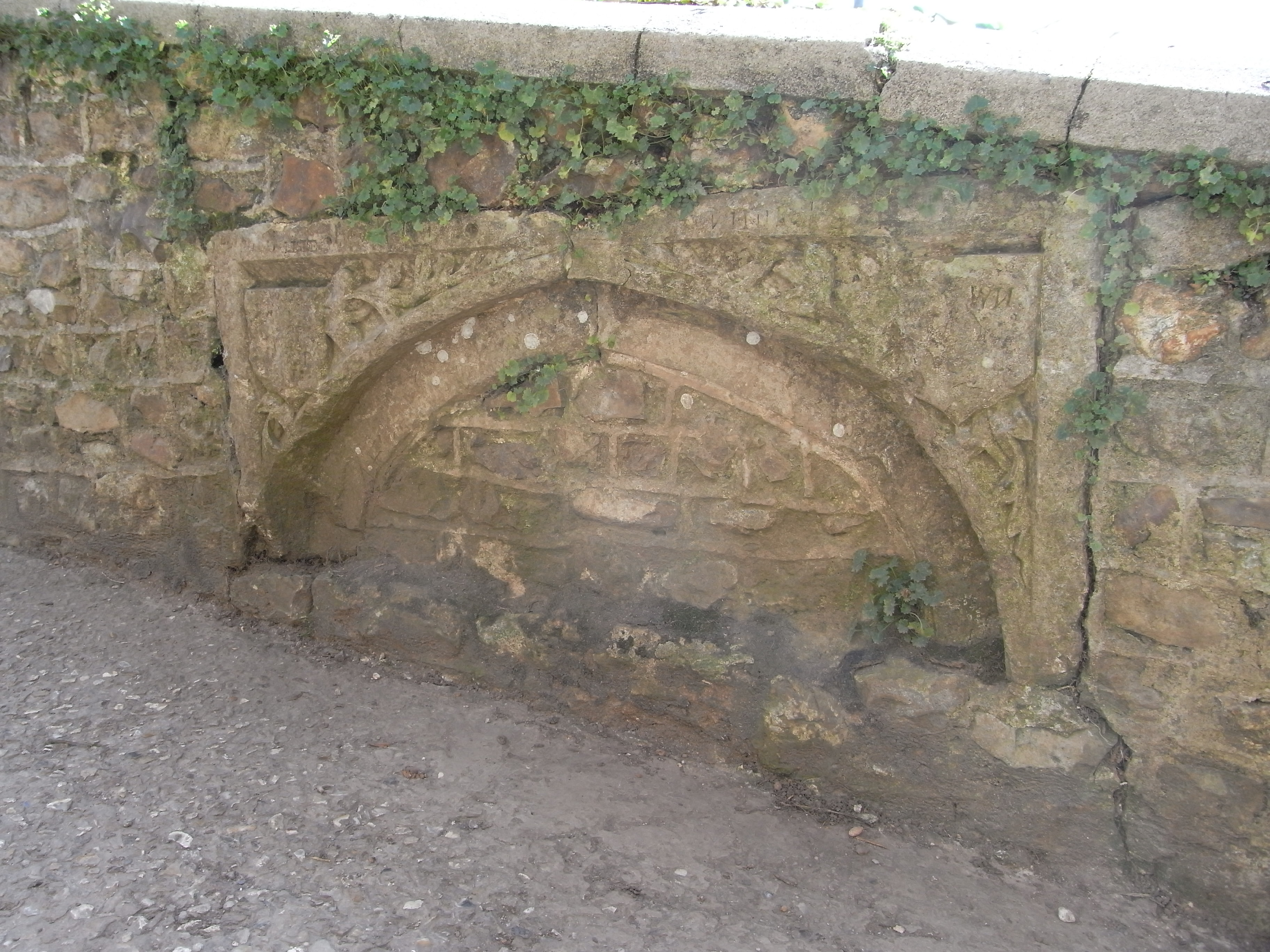 Ancient stone Tudor-arch from window with heraldic shields at each side, heraldry worn away, formerly part of Colcombe Castle, Colyton, Devon, now set into low parapet of footbridgr over leat of Colcombe Abbey Farm